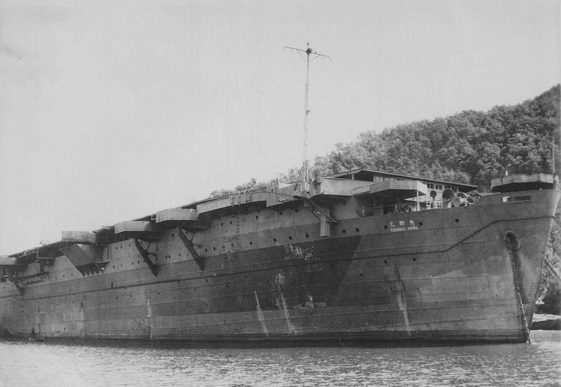 Imperial Japanese Army landing vehicle carrier Kumano Maru